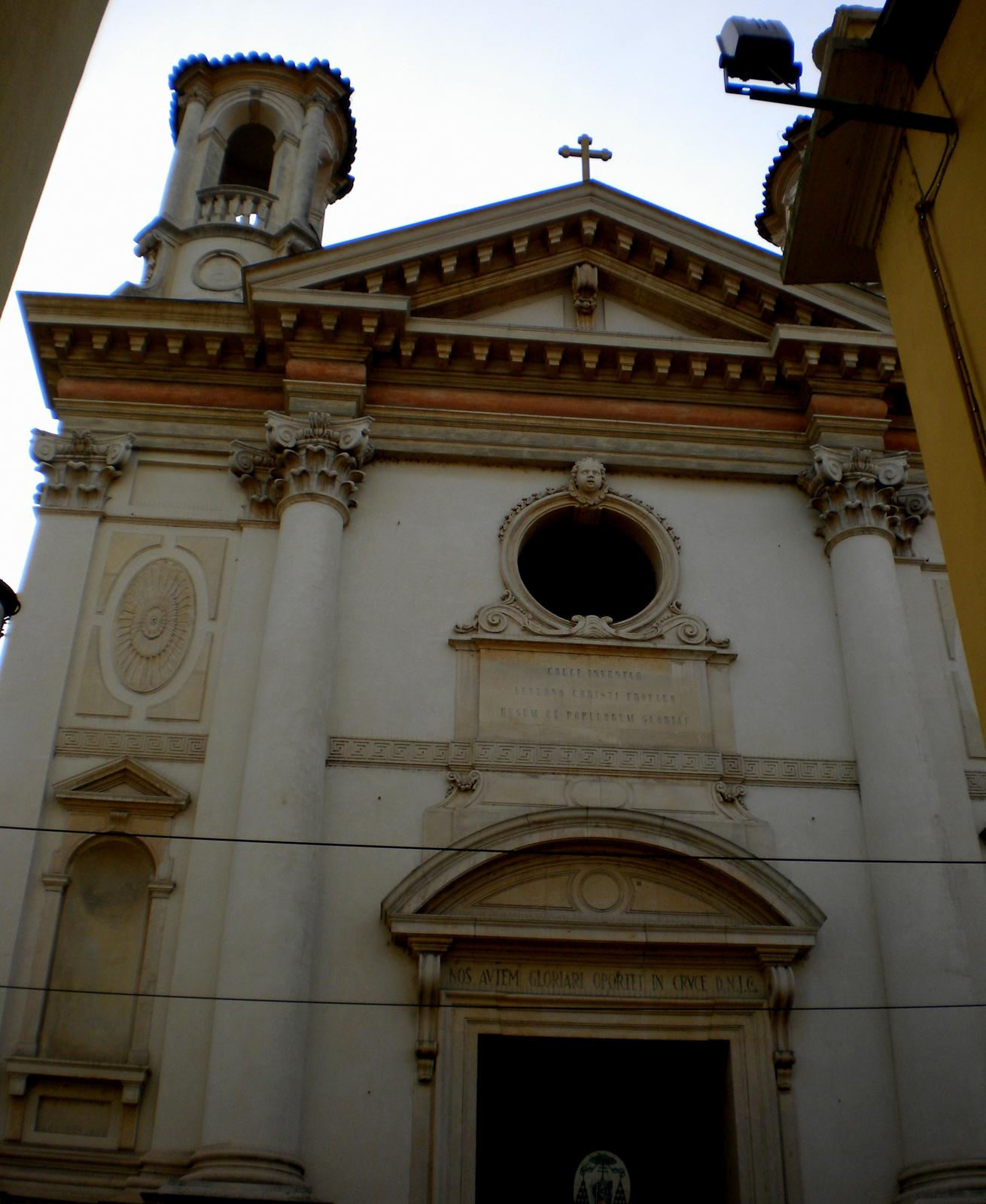 Facciata della Chiesa di Santa Croce in Padova